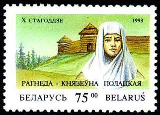 Rogneda of Polotsk (960 – 1000), Post stamp of Belarus